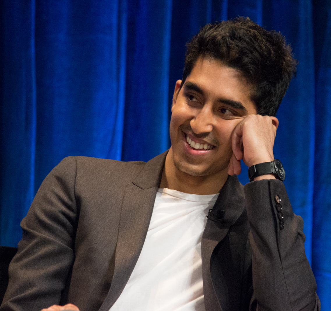 Dev Patel at the PaleyFest 2013 panel on the TV show "The Newsroom"